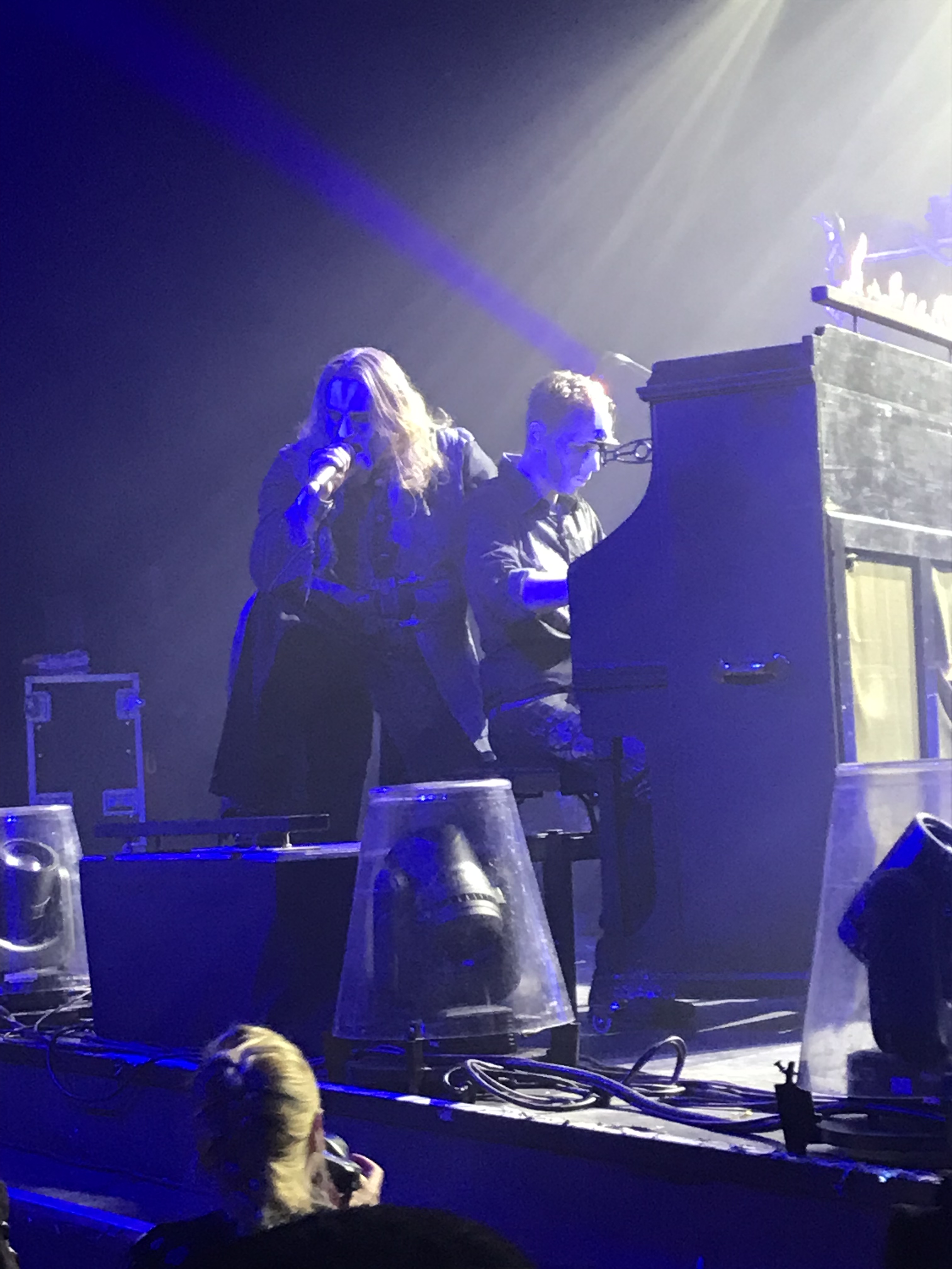 Powerwolf concert